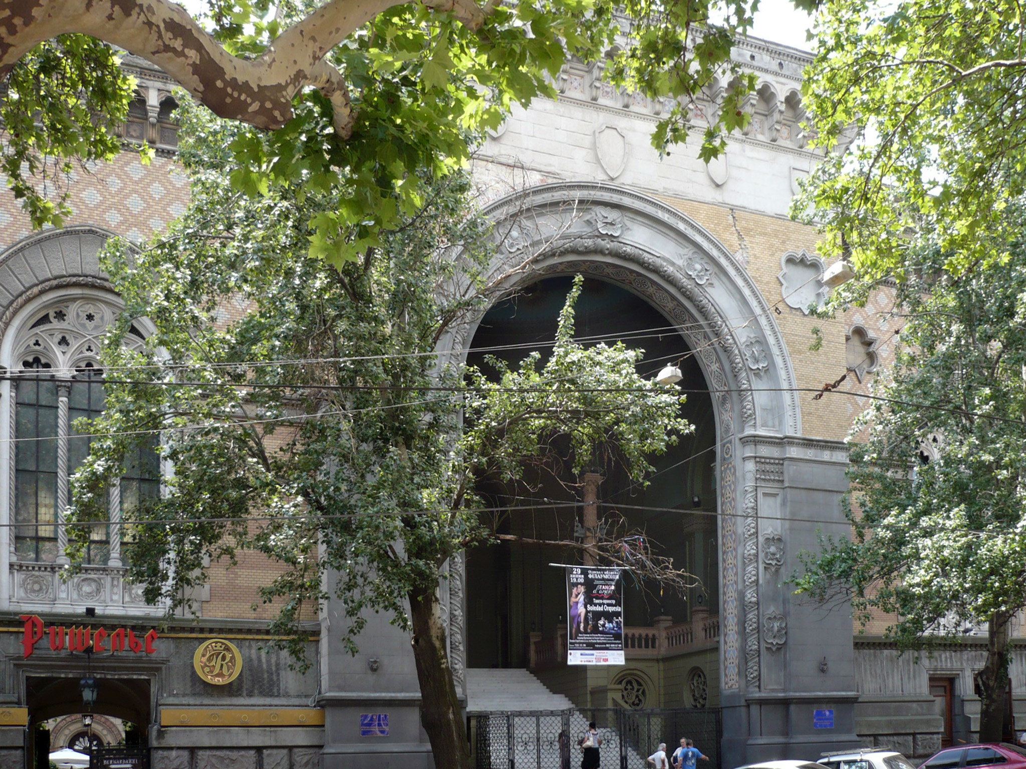 Odessa State Philharmonic Theatre